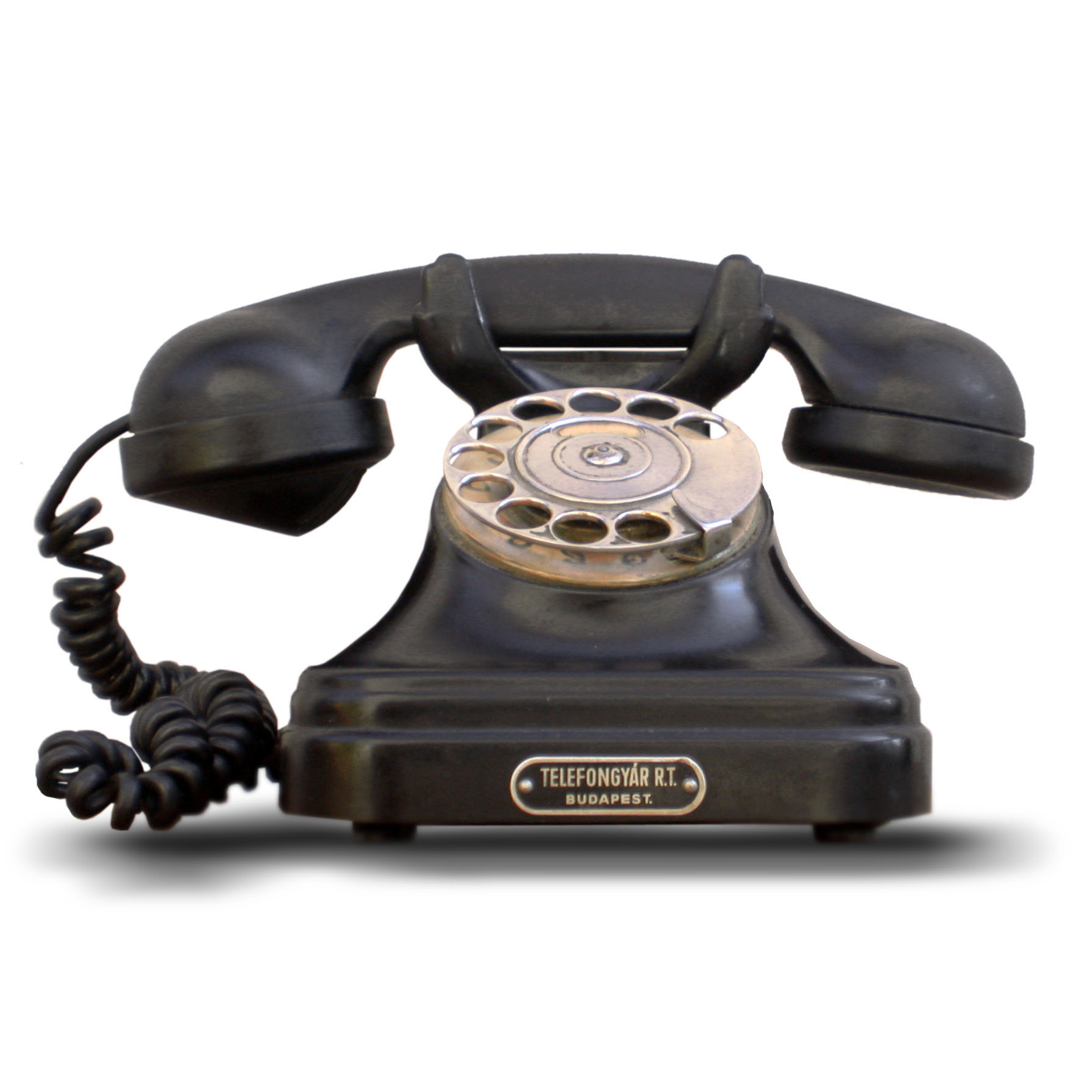 Hungarian Telephone Factory - 1937. Budapest